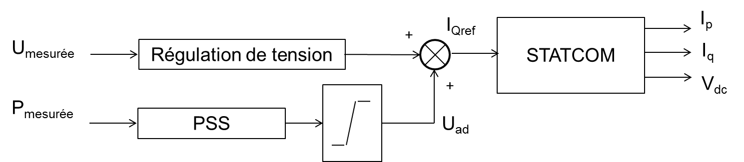 Control loop of the power stabilizing system